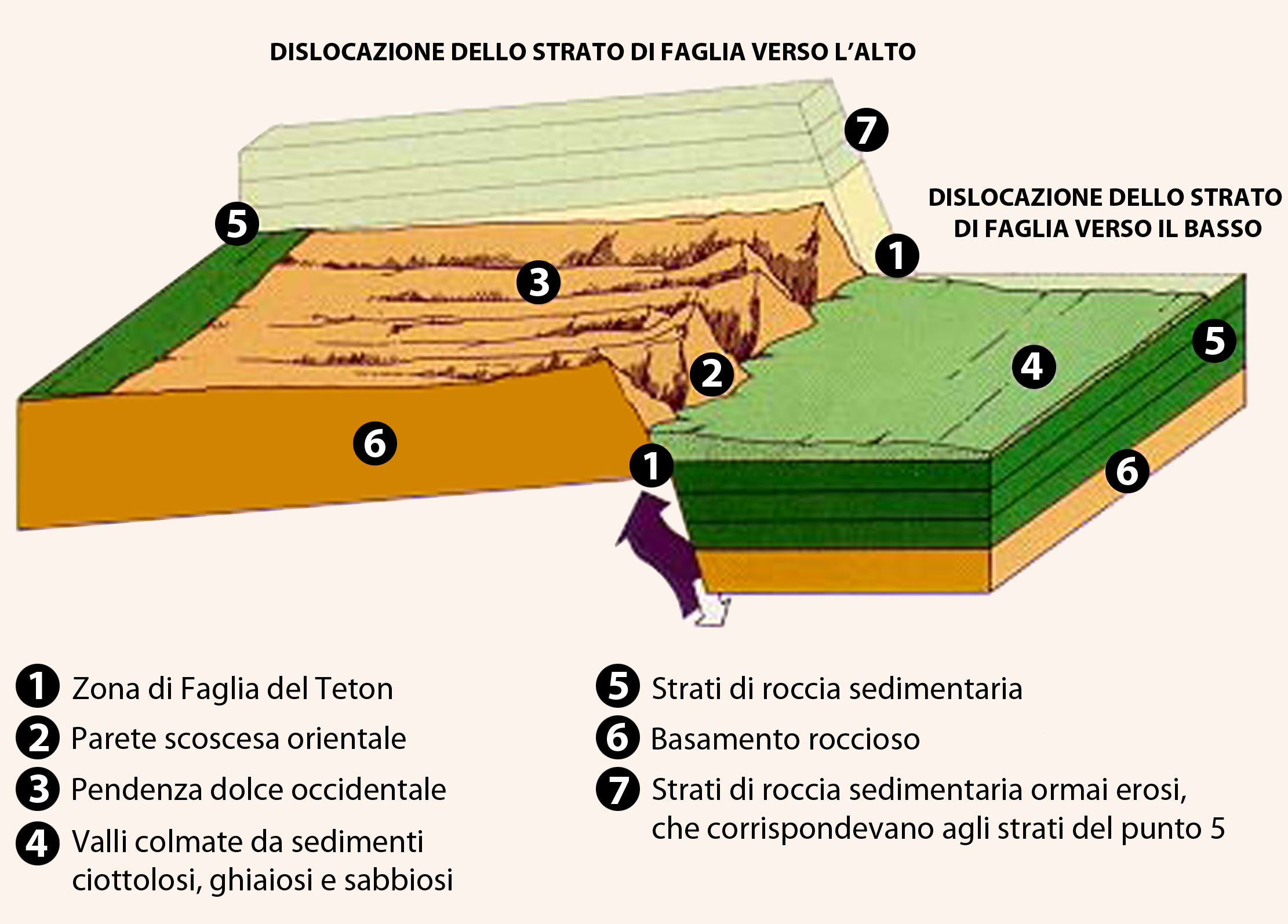 Schematic diagram of the Teton fault and the orogenesis of the Teton Range, Wyoming. Diagramma schematico della faglia del Teton e orogenesi del Teton Range, Wyoming